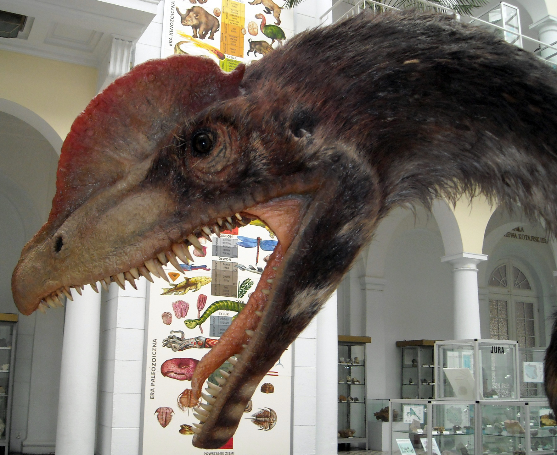 Model of Dilophosaurus wetherilli in the Geological Museum of the Polish Geological Institute in Warsaw